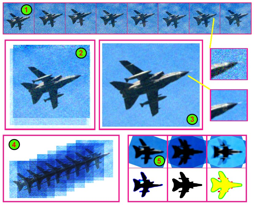 demonstration of air craft recognition and tracking: Step 1: several images (here 8) are continously taken by moving camera carrier having a CMOS based camera installed, following the aircraft a best as possible Step 2: 4 images are processed by overlay technique Step 3: 8 images are assembled focusing on the air craft to reduce the noise and increase the image resolution of the object. Step 4: All images are joined related to the objects in the background (here clouds) to obtain a seamless image being able to meassuere the speed of the object Step 5: search for symmetry is performed and comparison with known pattern is done to identify the object type and details (here weapons or not)